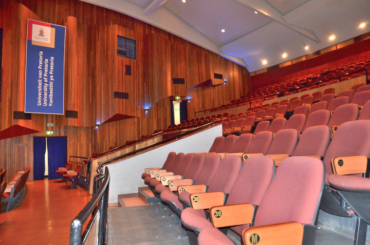 The Aula auditorium of the University of Pretoria